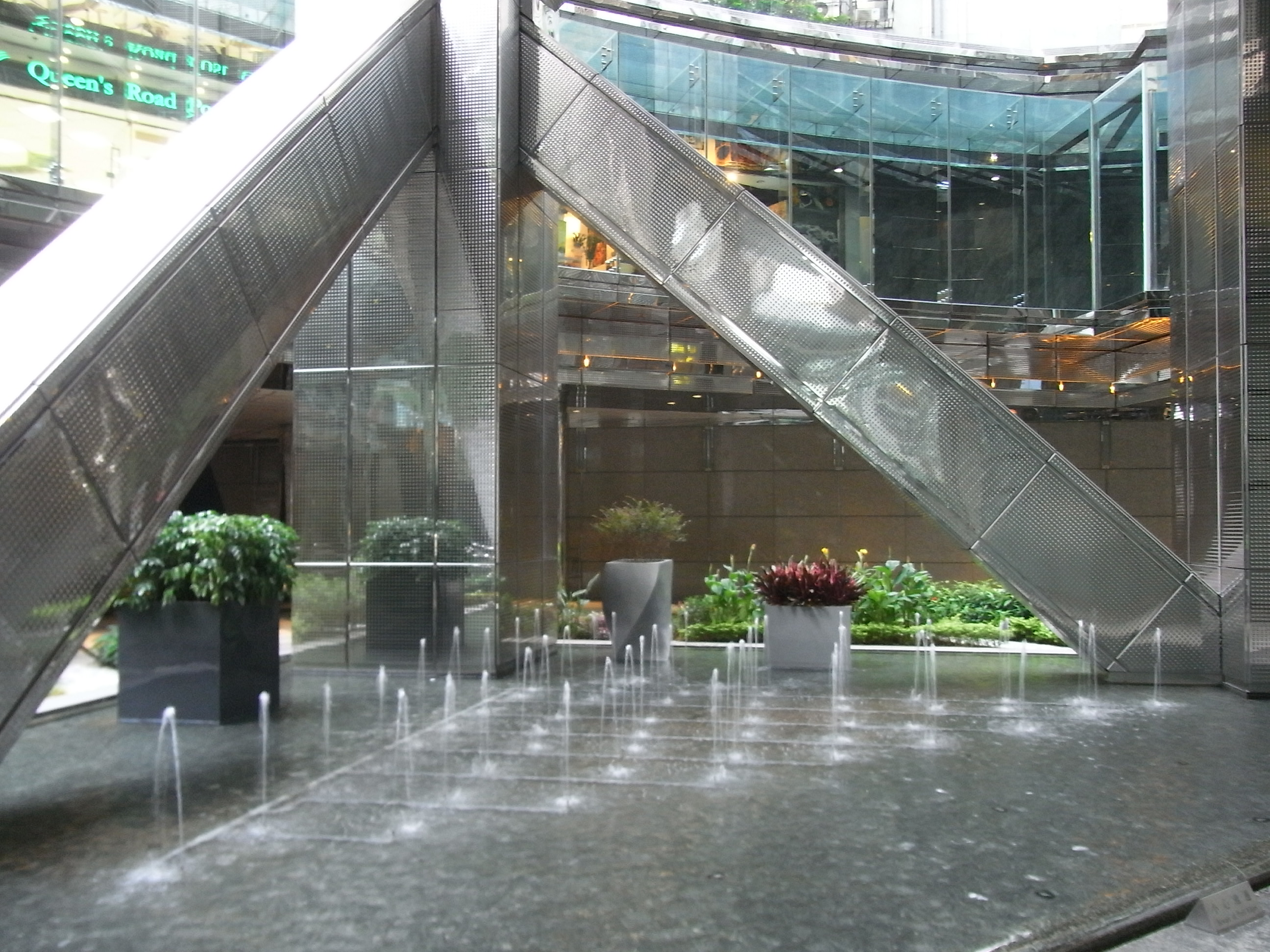 中環中心, The Center, No.99 Queen's Road Central, Hong Kong